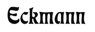 Eckmann (Typeface)